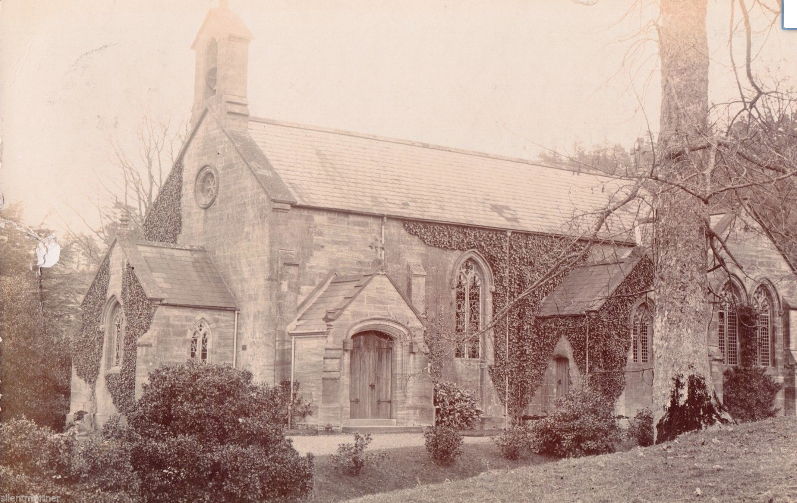 Photographic postcard of St James Church in Chedington, 1906